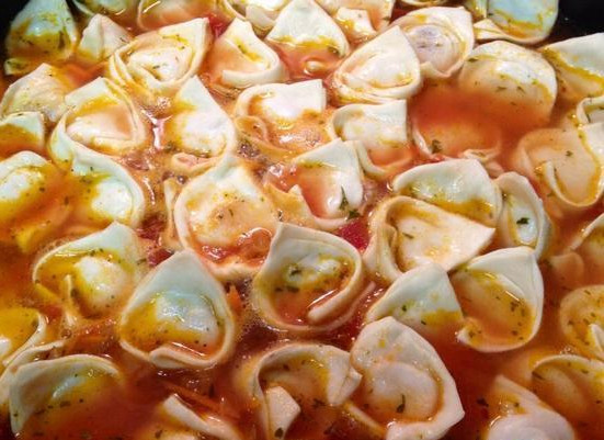 Chuchvara being boiled in tomato sauce